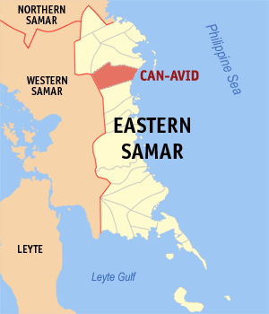 Map of Eastern Samar showing the location of Can-Avid